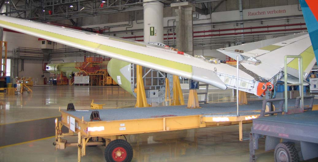 Horizontal stabilizer of an Airbus A320 family aircraft, including elevators